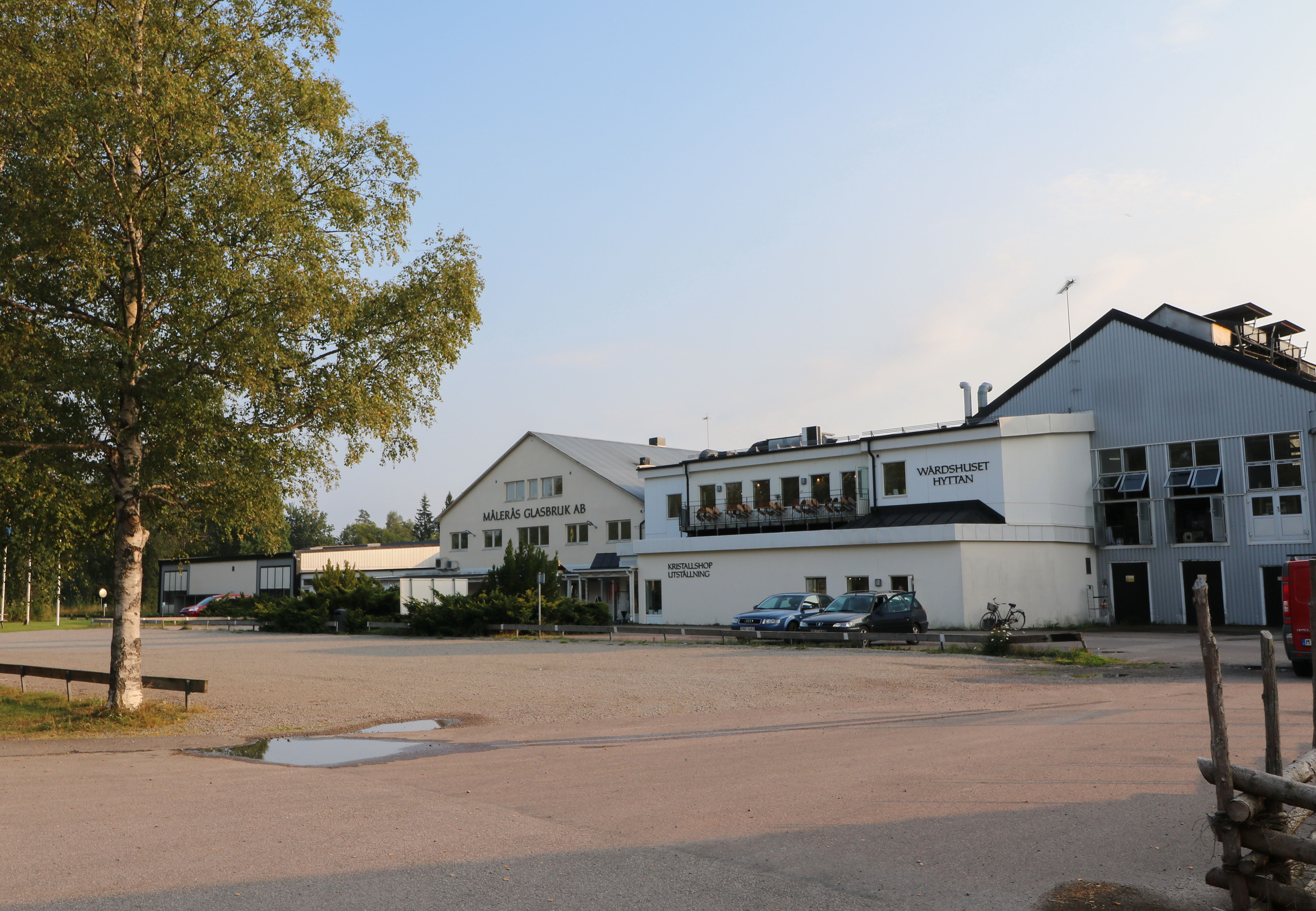 Målerås glassworks and restaurant.